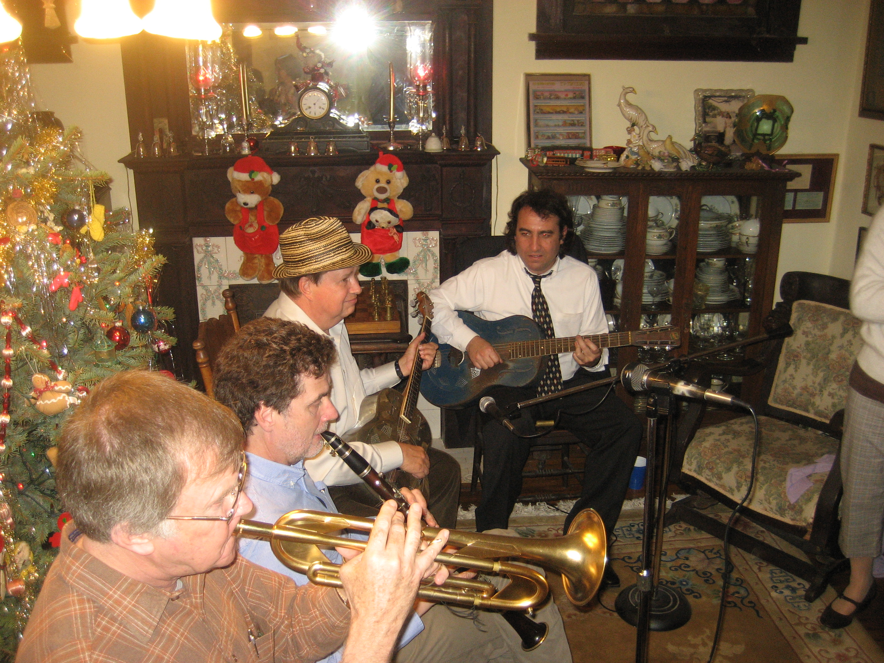 Jazz band at New Years Day party, New Orleans. Clive Wilson, trumpet; Tommy Sancton, clarinet; Lars Edegran, tenor guitar; Seva Venet, guitar.